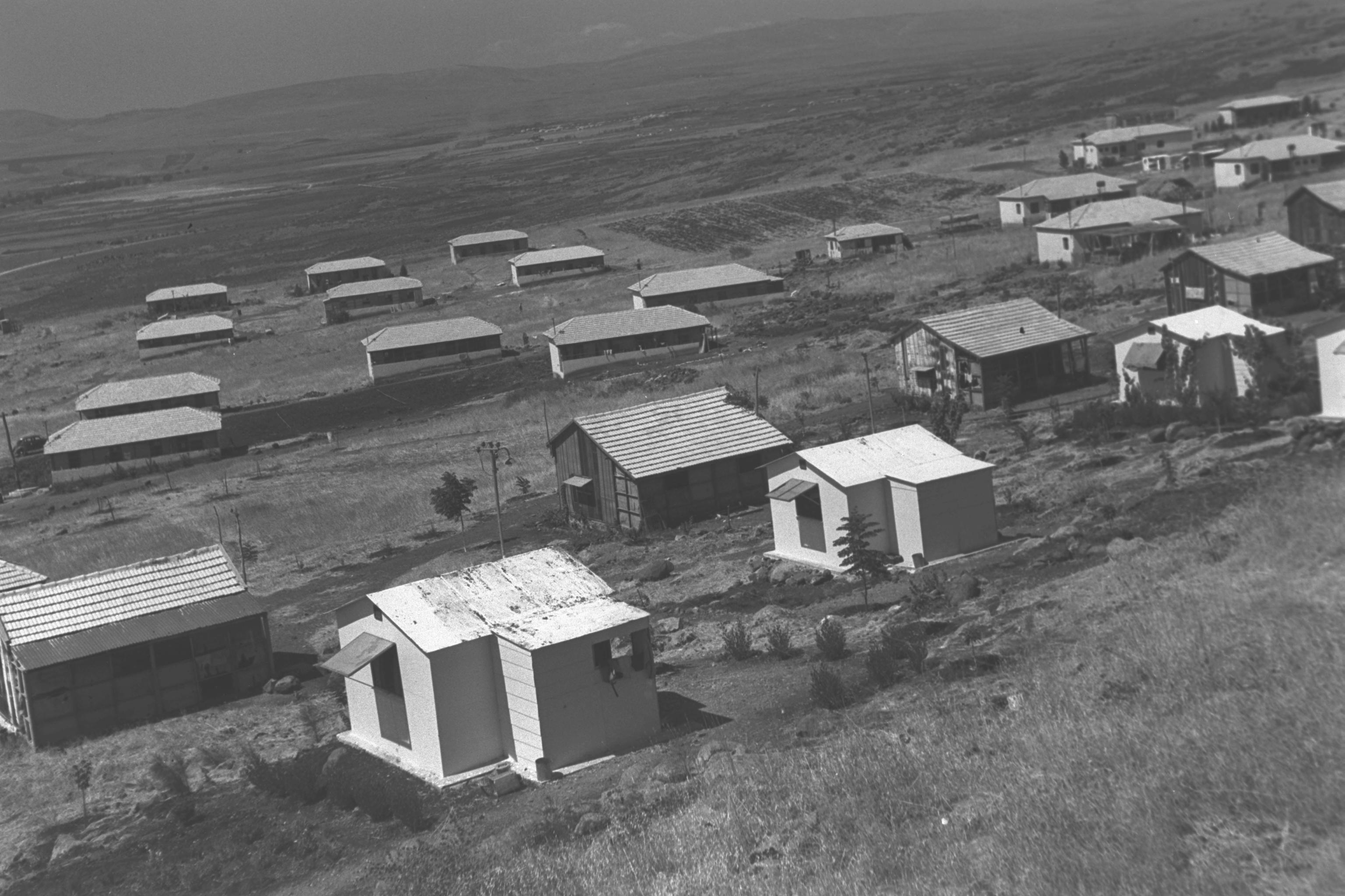 KIBBUTZ KFAR BLUM IN THE UPPER GALILEE. קיבוץ כפר בלום בגליל העליון.